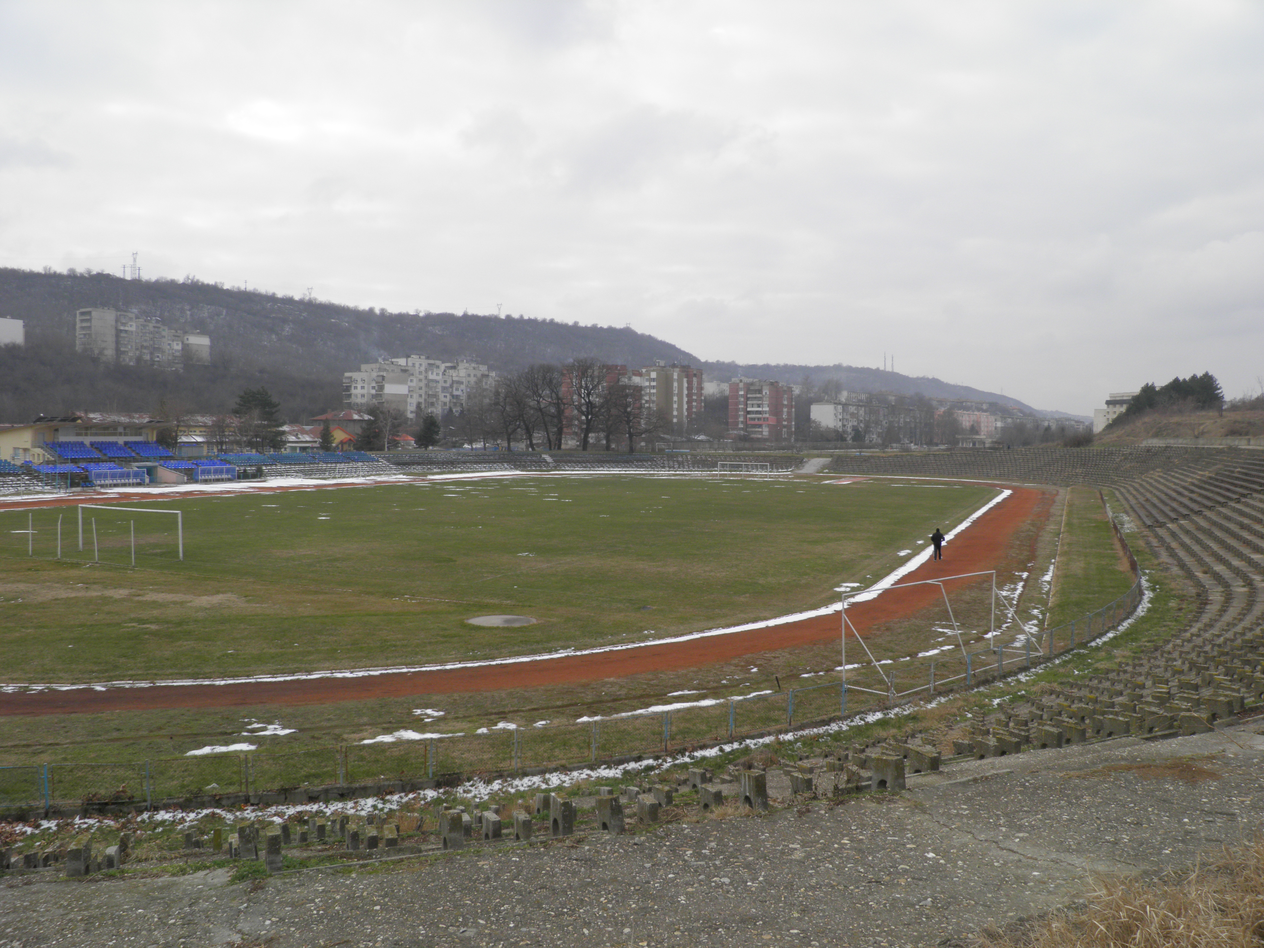 Stadium Akademic in Svishtov,Bulgaria